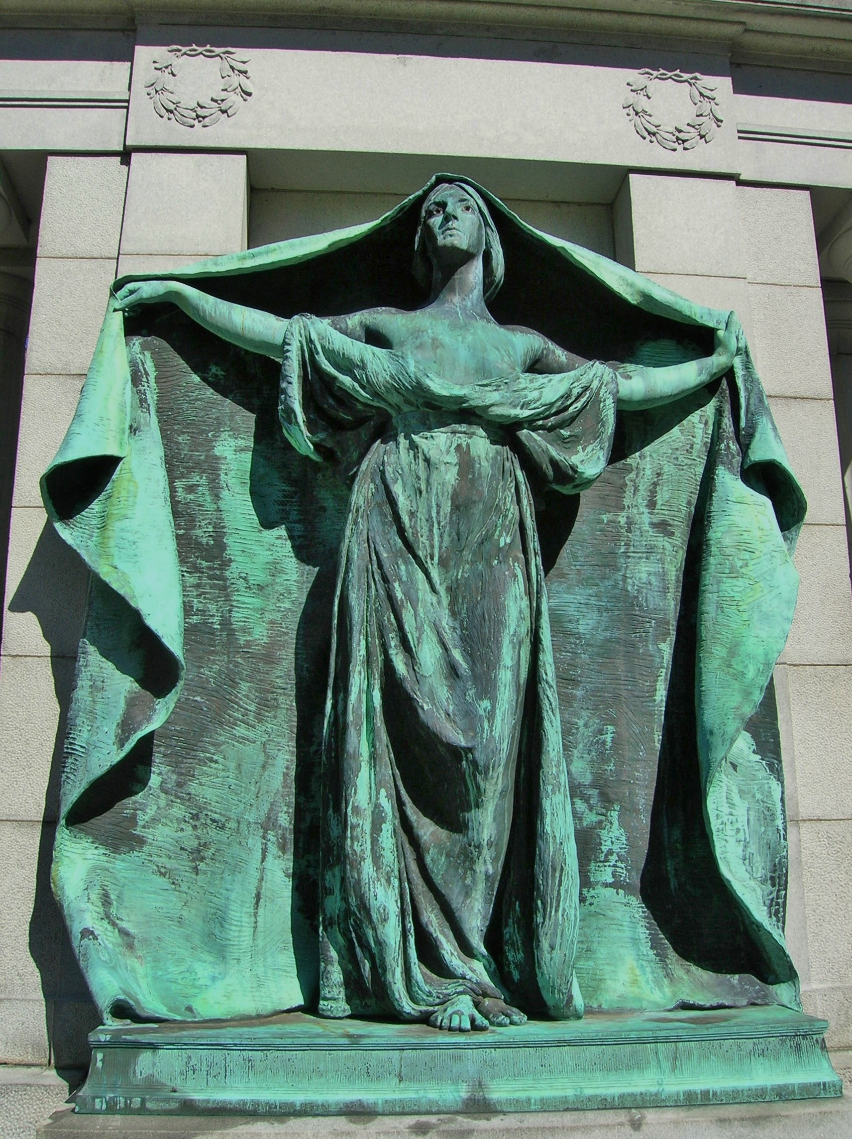 Photograph of the Bonney monument in Lowell Cemetery, Lowell, MA, sculpted by F. Edwin Elwell, 1898 (Henry Bacon, architect).